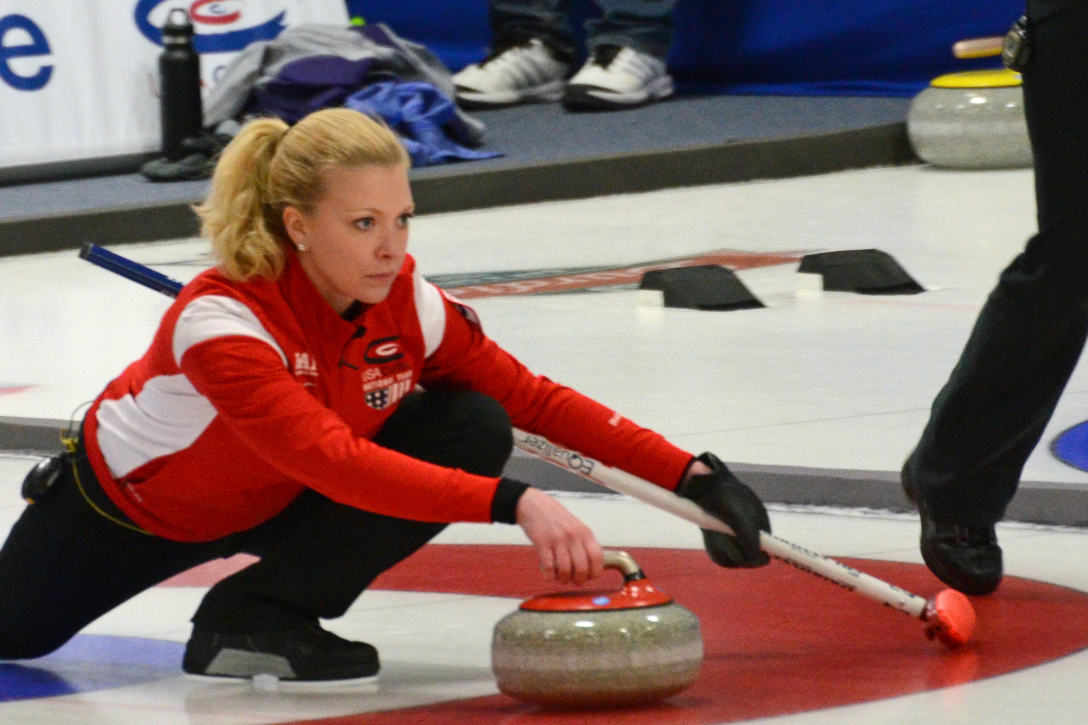 Nina Roth delivering a stone at the 2015 US National Championships in Kalamazoo, Michigan.